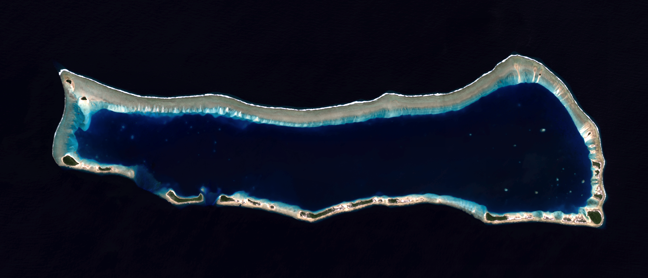 Composite "true color" multispectral satellite image of Ailinginae Atoll. NASA Landsat 8 OLI bands used were 4 (red), 3 (green), 2 (blue). Pan-sharpened with band 8. Manual color balance. Projection: UTM (zone 58), WGS84. Imagery courtesy NASA/USGS. (note: atmospheric haze is present and could not be fully removed)